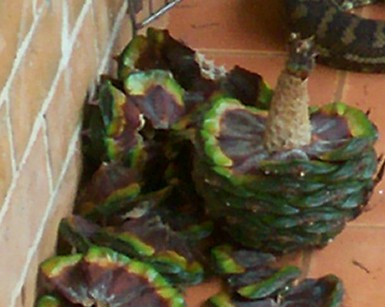 Seed cone from Araucaria bidwillii